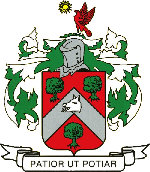 Coat of arms of Spotsylvania County, Virginia